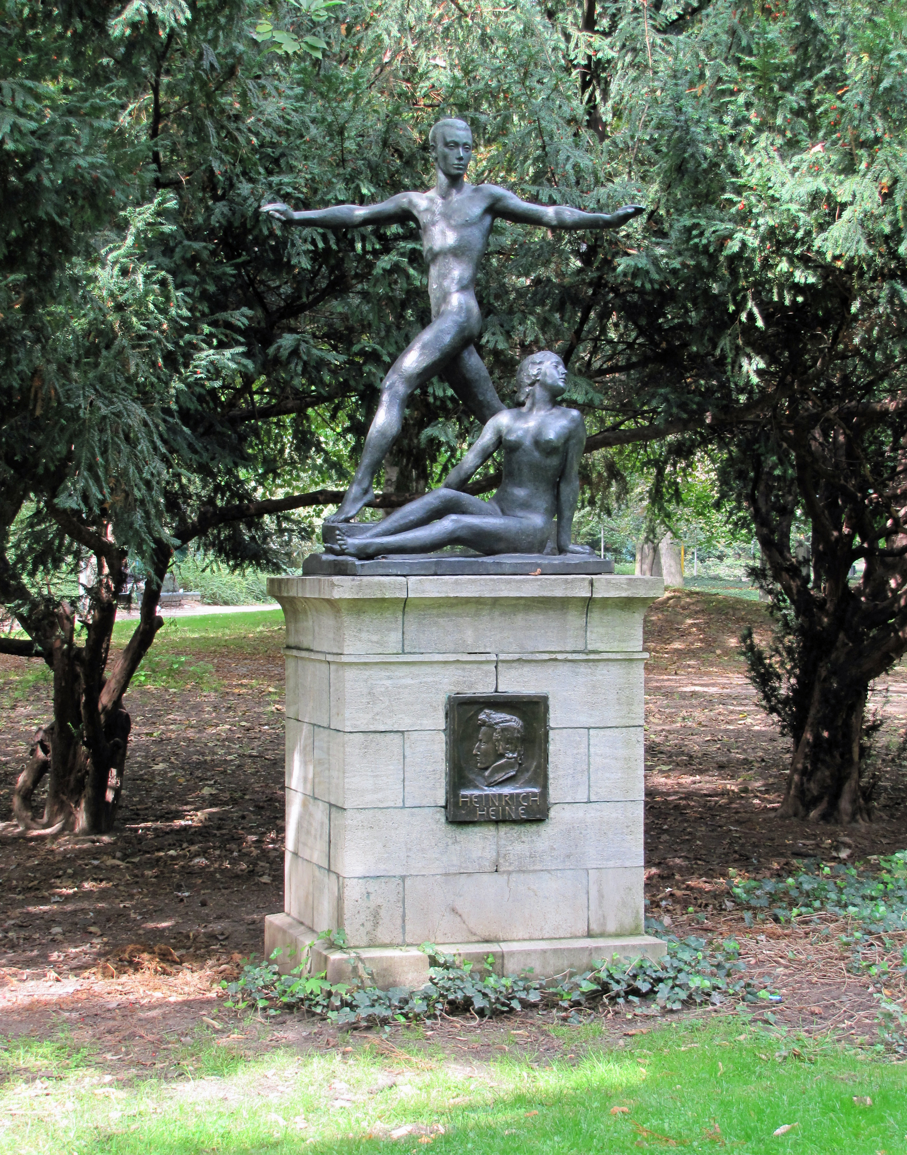 Heinrich Heine memorial from sculptor Georg Kolbe, 2011 at Taunusanlage in Frankfurt am Main, Germany.